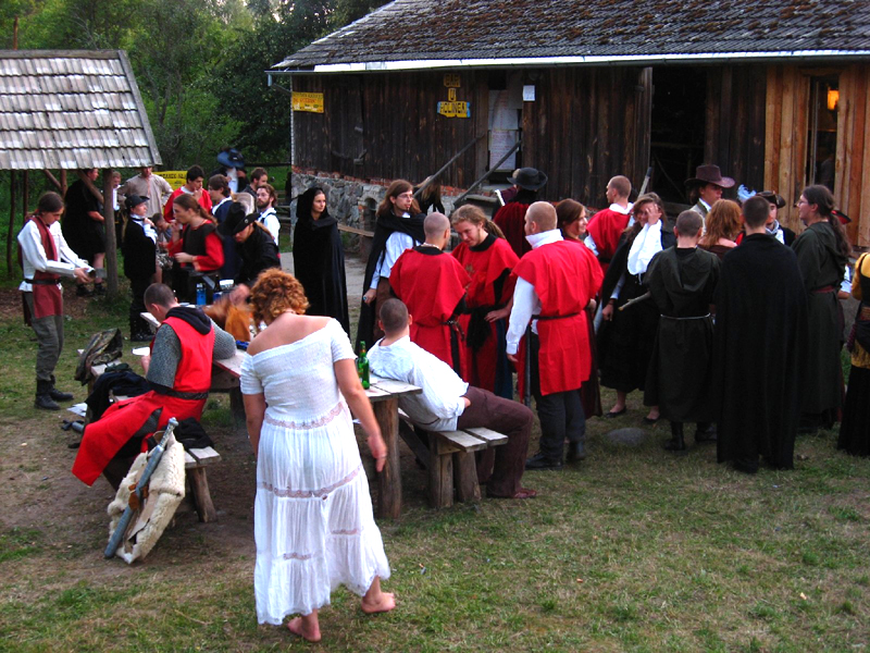 Scene from the LARP "That's not a place for noble people" at Hardkon 888 LARP Convention